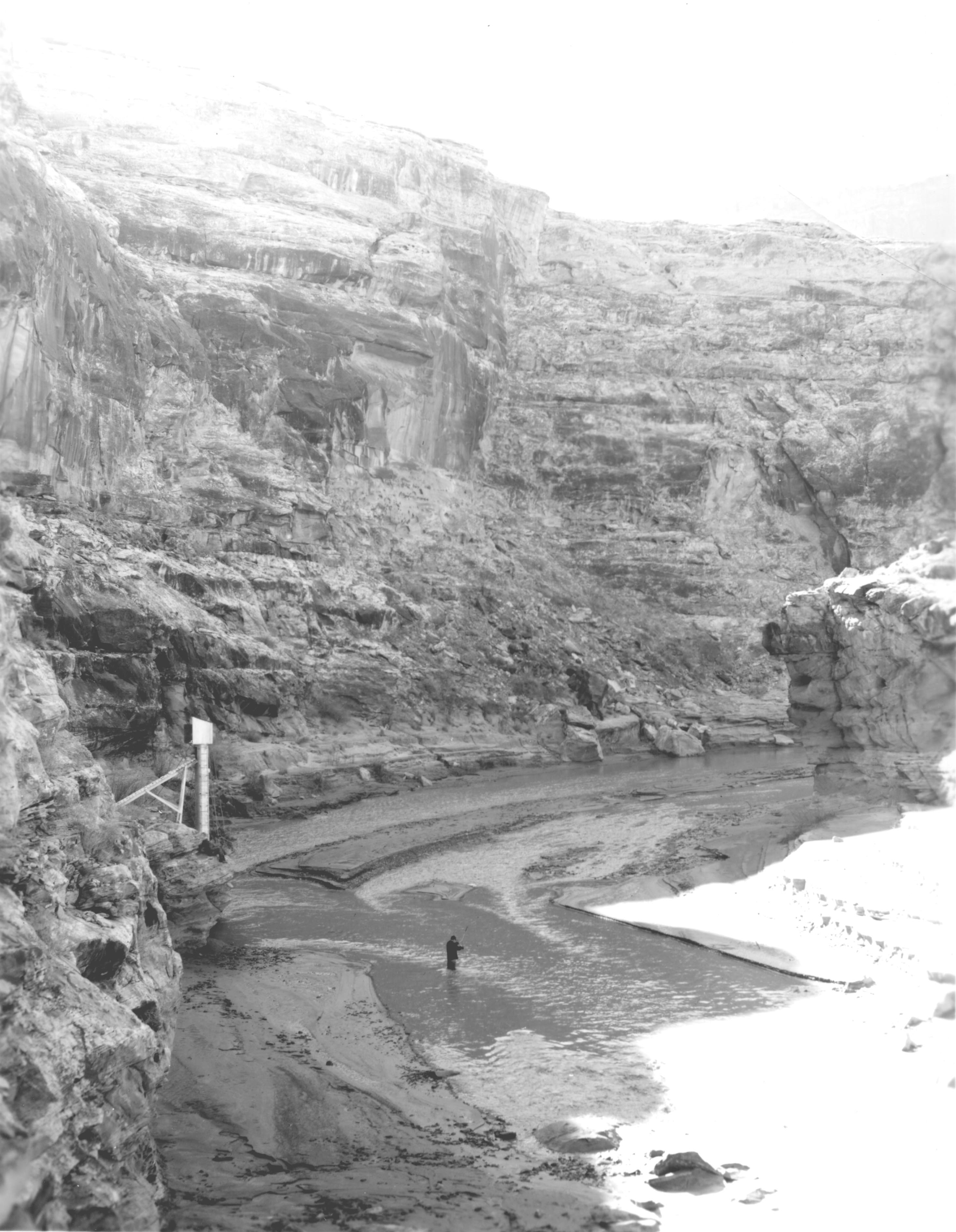 Dirty Devil River on February 16, 1954 near crossover by Poison Springs Wash Road in Hanksville, Utah. The photo was taken near USGS gage number 09333500.